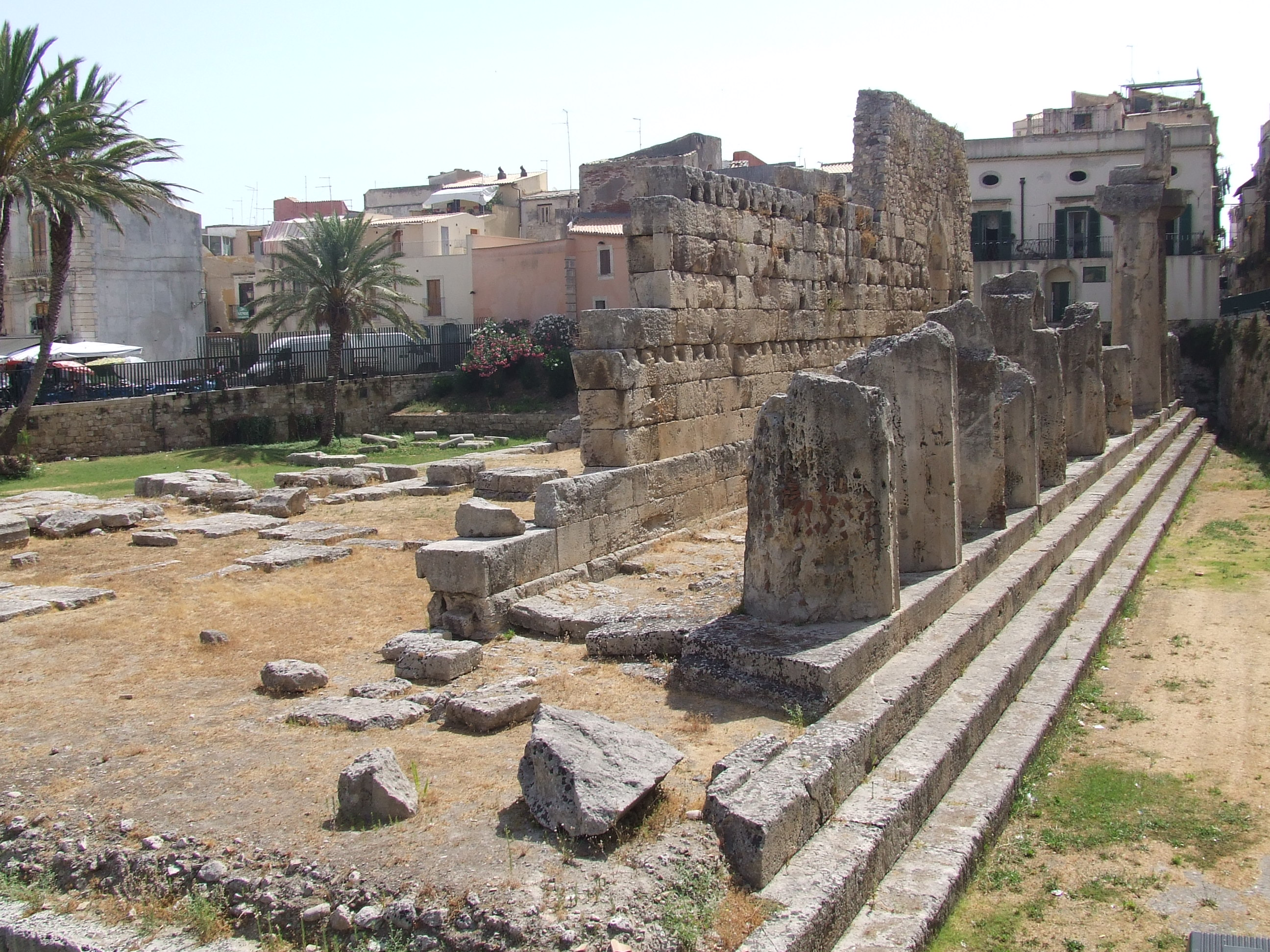 The northern and eastern facades of the Temple of Apollo on the island of Ortigia, Syracuse, Sicily displaying the foundation steps and two standing Doric order columns.